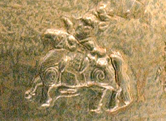 Detail of a Jin period vase. Shanghai museum, 2005. Personal photograph.